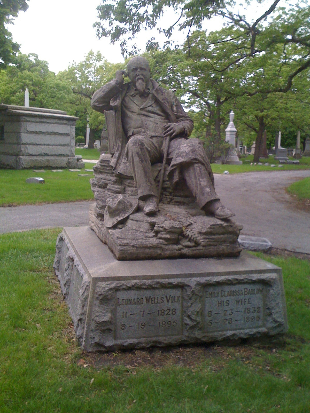 Gravesite of Leonard Wells Volk (Leonard_Volk)